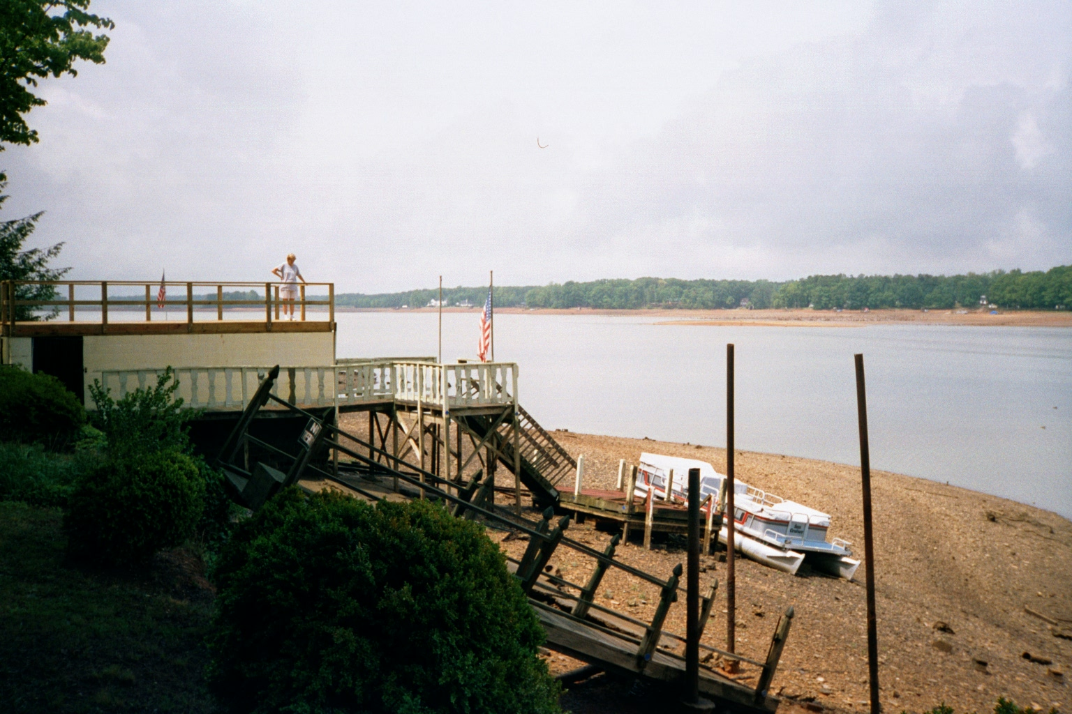 Drought of 2002, High Rock Lake, Abbots Creek Branch, NC